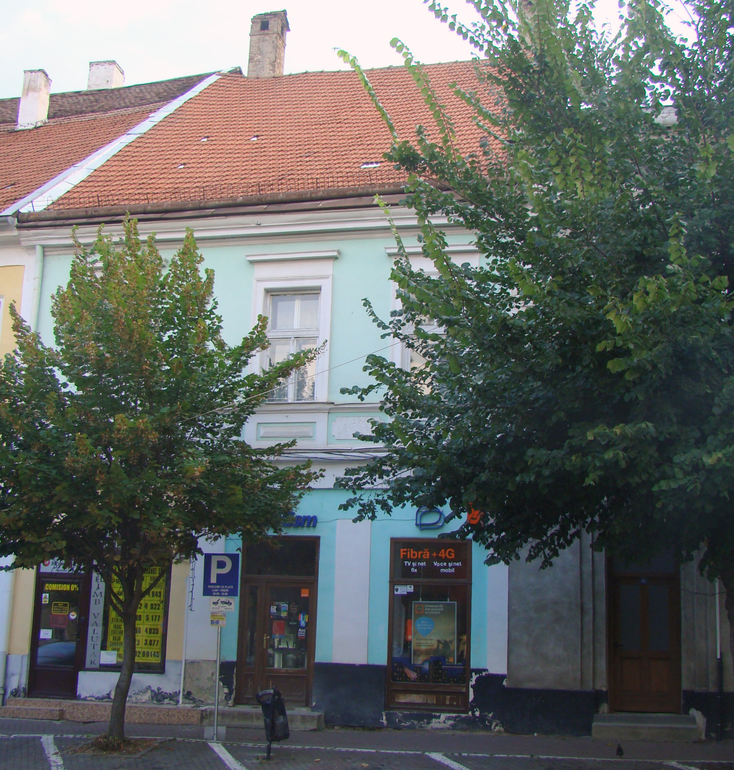 House, historic monument, in Bistrița, Piața Centrală 11